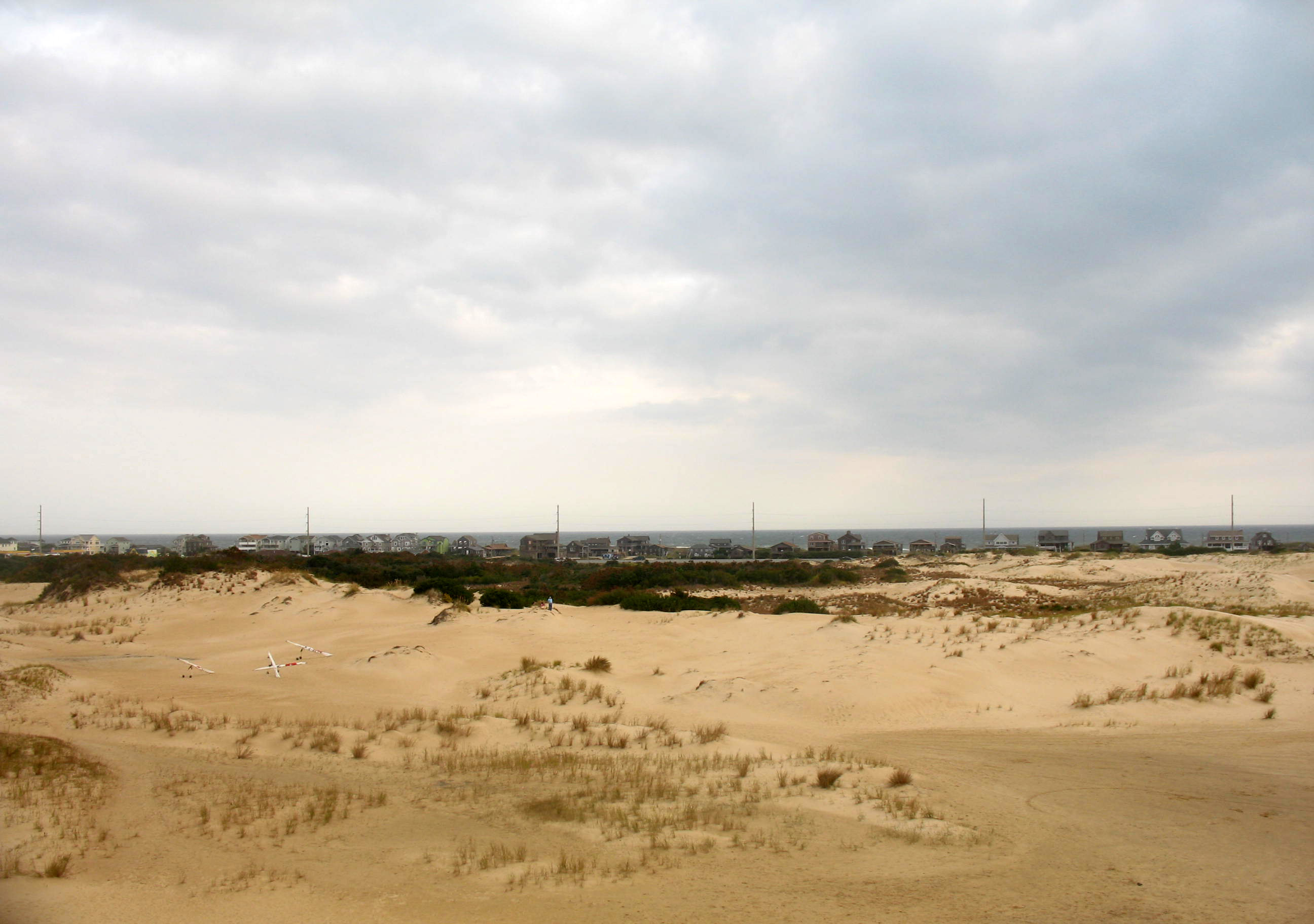 The view from Jockey's Ridge State Park on the Outer Banks, North Carolina, USA.